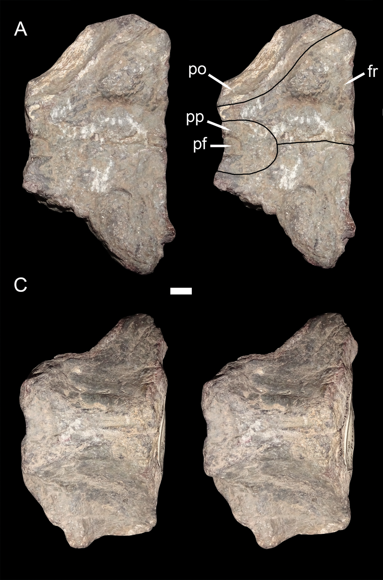 Stereopairs of skull roof fragment of Pentasaurus goggai (NHMW 1876-VII-B-118) in (A) dorsal (with interpretive drawing of sutures) and (C) ventral views.